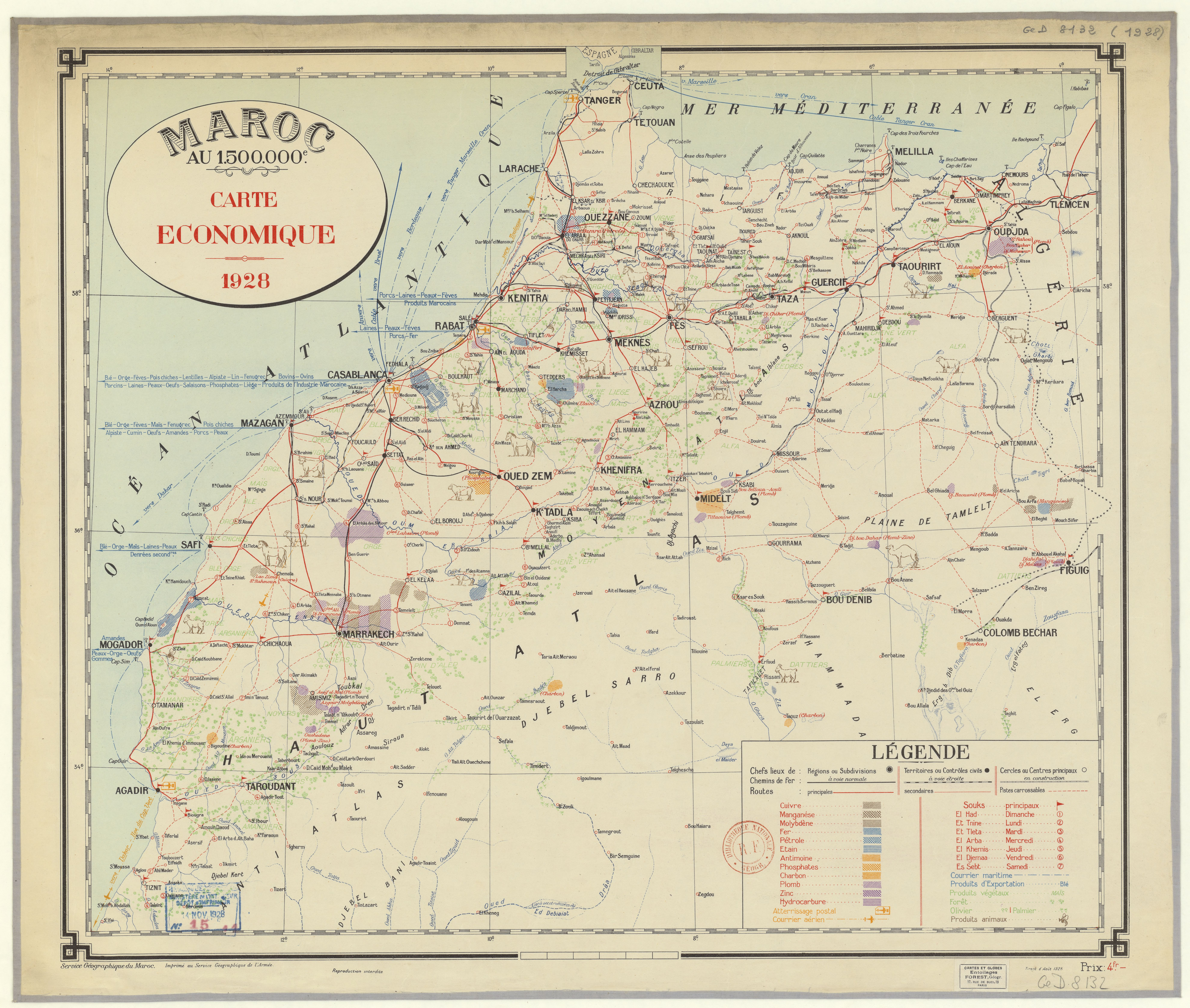 "Maroc au 1/1.500.000. Carte économique" Service géographique du Maroc (Casablanca) 1928 51 x 60 cm, sur flle 55 x 65,5 cm